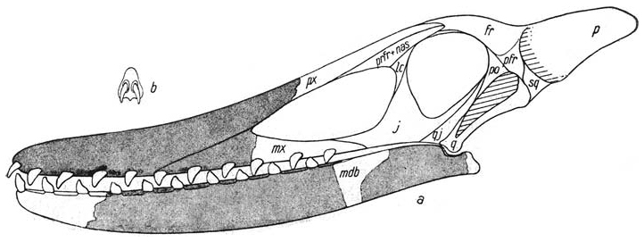 Reconstructed skull of Ornithocheirus cuvieri (now Cimoliopterus).